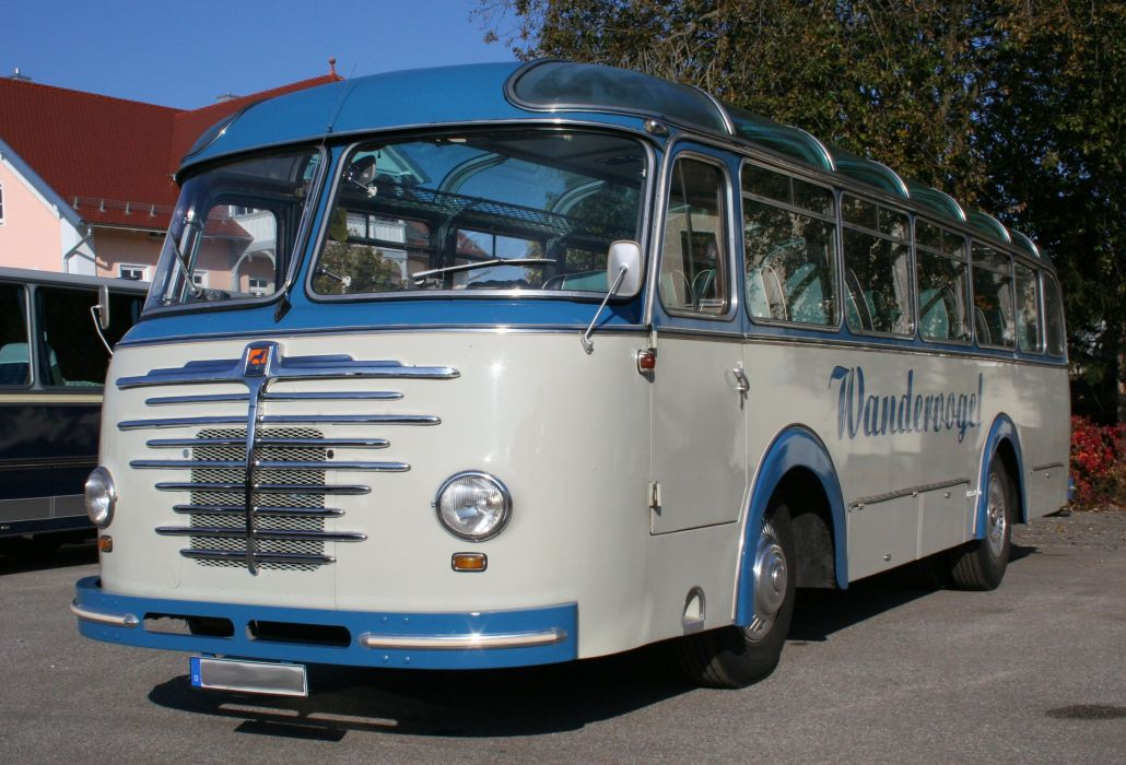 Büssing 4000 T Bus from 1950th